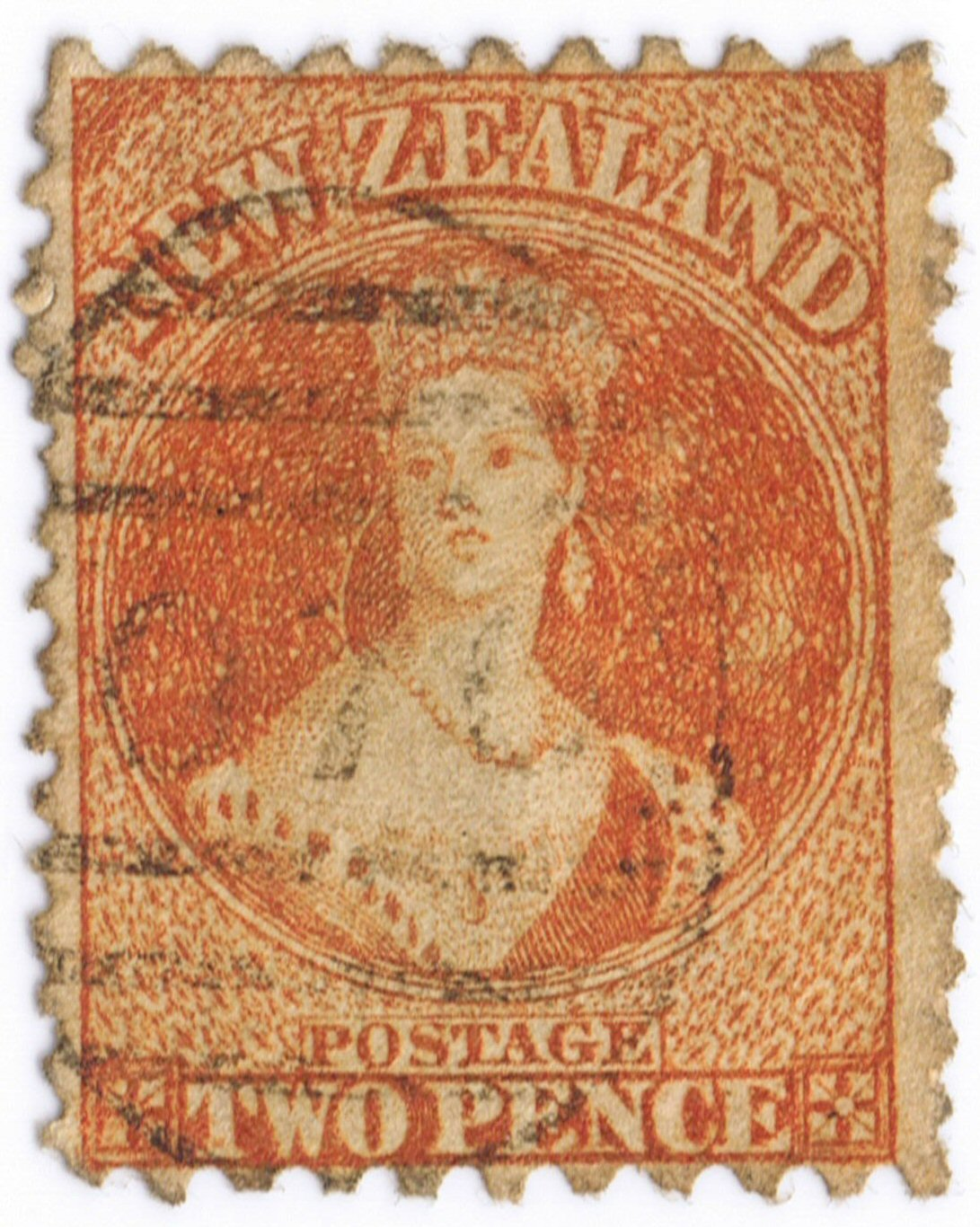 1871 New Zealand stamp 2 pence vermilion (Queen Victoria with Chalon head) (SG N°130 if watermark large star).